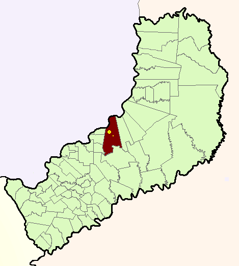 Map showing municipio of Garuhapé in Misiones Province, Argentina. Big point is Garuhapé town, the little one is San Miguel town (also known as Garuhapé-Mi).